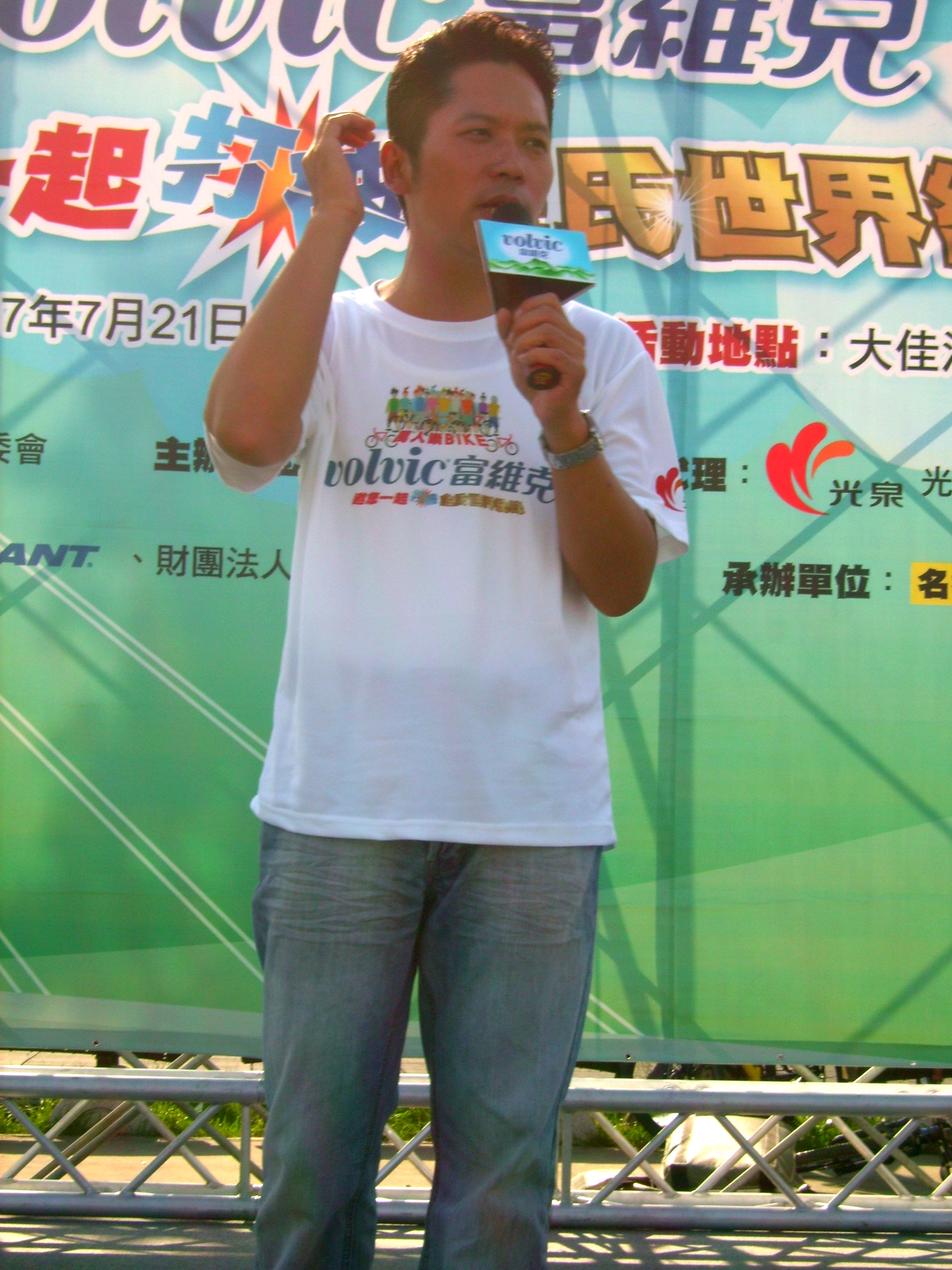 Charge Pu is the host of "2007 Ten Thousand People for BIKE" Guinness World Record Challenge. 中文（台灣）: 「2007年萬人崇BIKE」活動的主持人為卜學亮。 Bân-lâm-gú: 2007-nî bān-lâng tsông BIKE ua̍h-tōng ê tsú-tshî-jîn uî Poh Ha̍k-liōng.